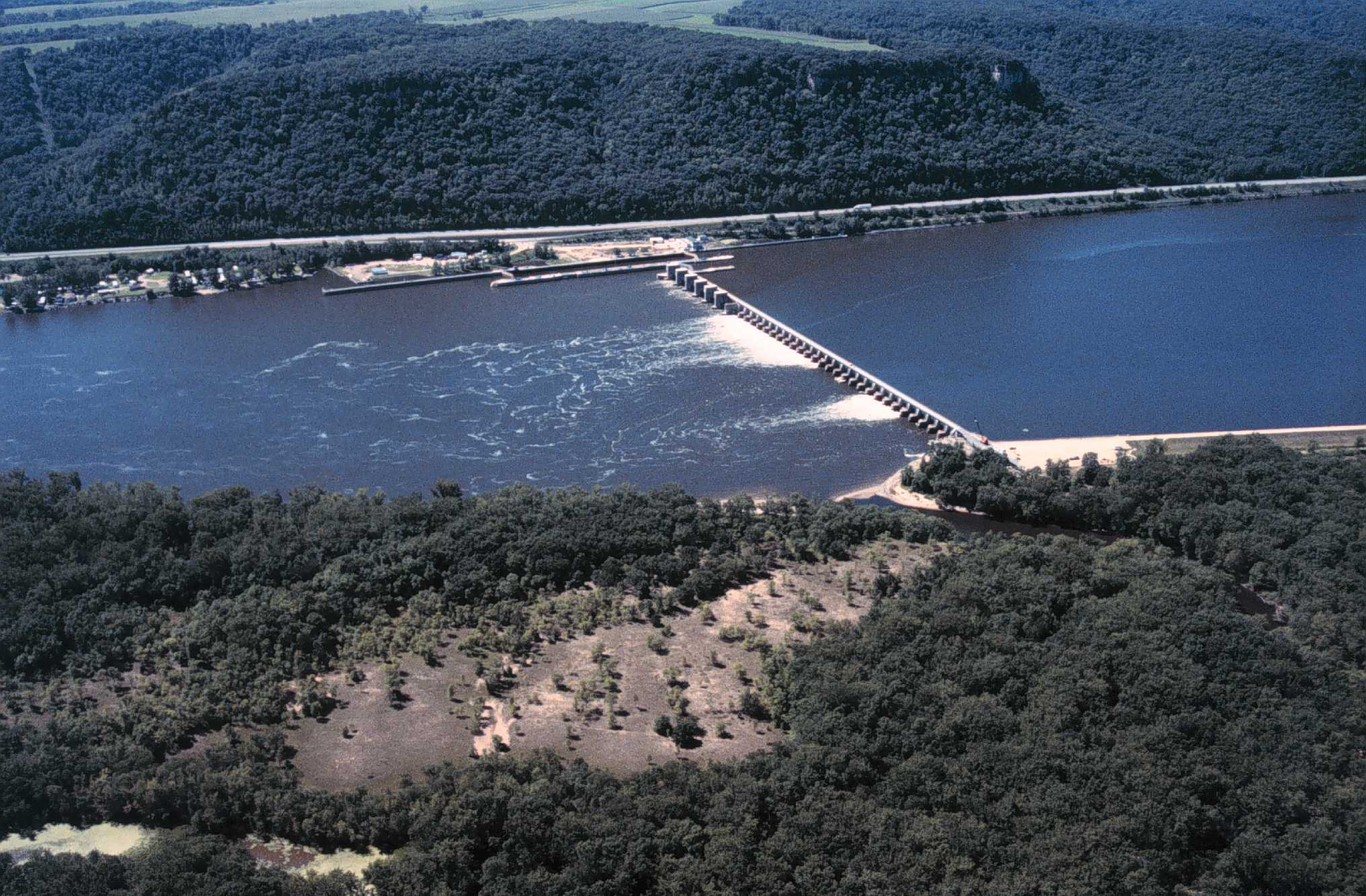 Mississippi River Lock and Dam number 5 near Milton, Wisconsin